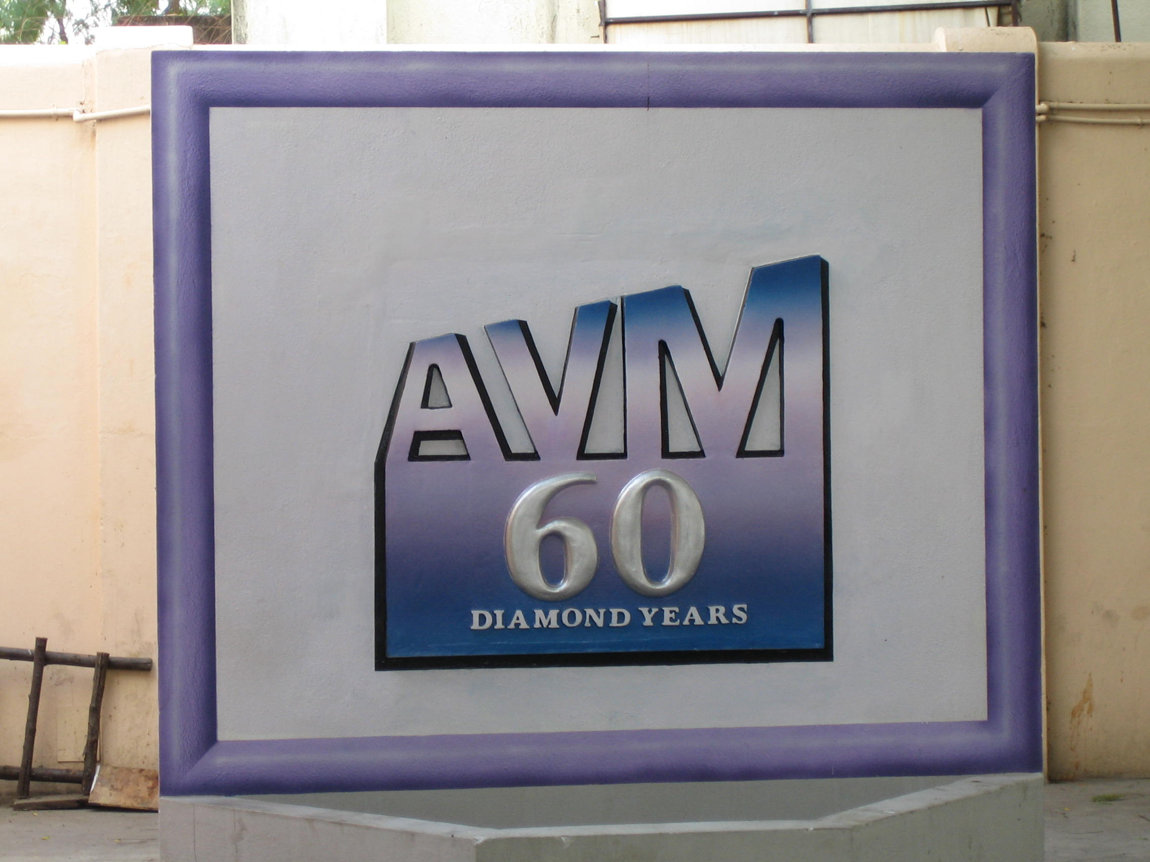 Logo of film production company AVM Productions in Chennai, India